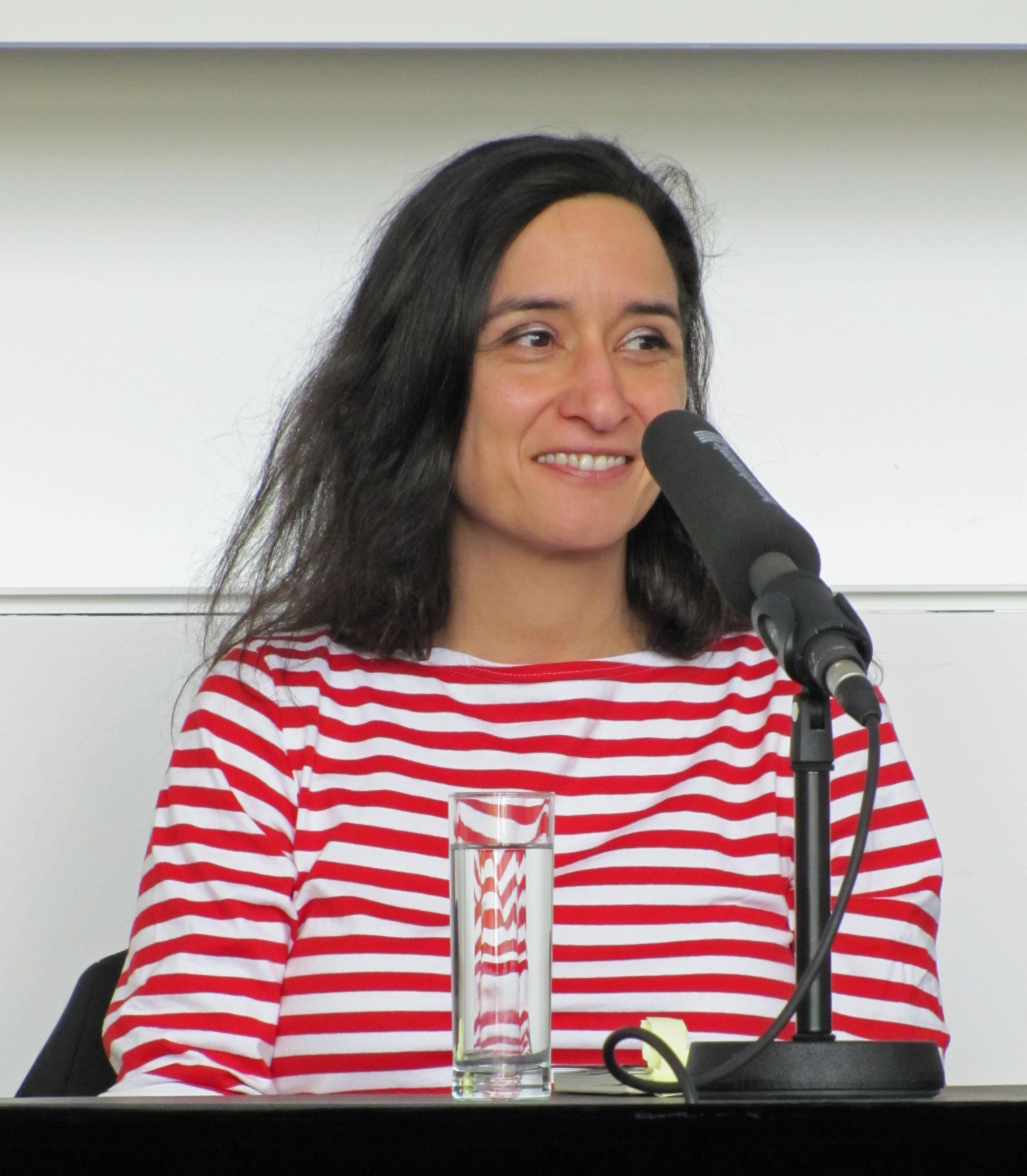 Arezu Weitholz, German writer, 2010 in Frankfurt am Main, Germany.